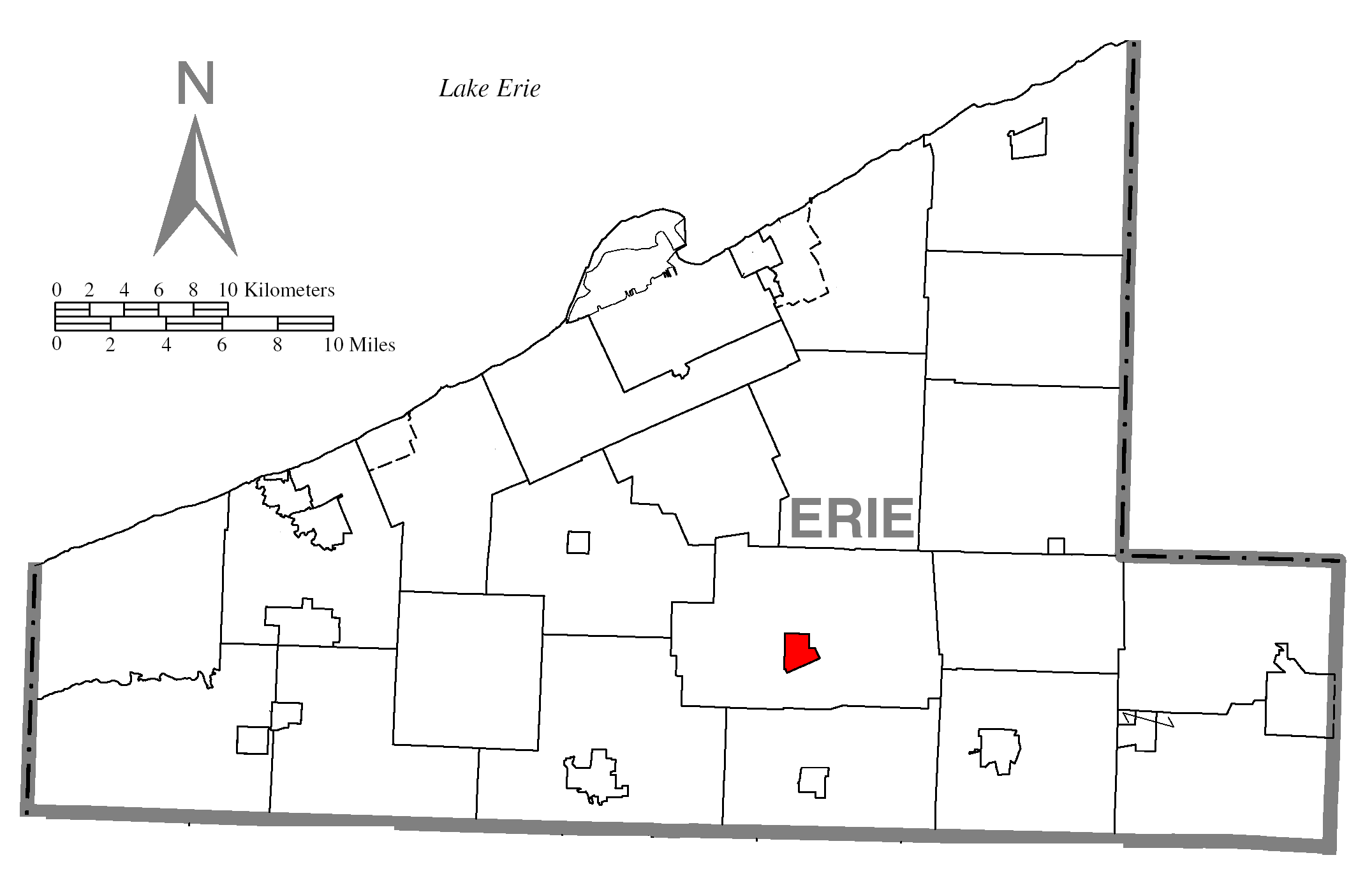 A map of Erie County showing Waterford, Pennsylvania (alternate) highlighted on the map.